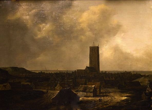 View of Egmond aan Zee This image is available from the Netherlands Institute for Art Historyunder digital ID 51328. This tag does not indicate the copyright status of the attached work. A normal copyright tag is still required. See Commons:Licensing.